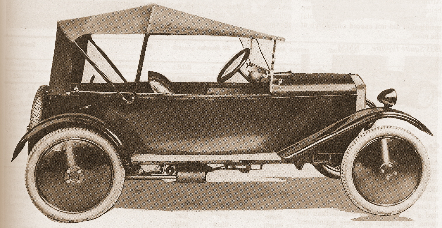 1924 Sheret